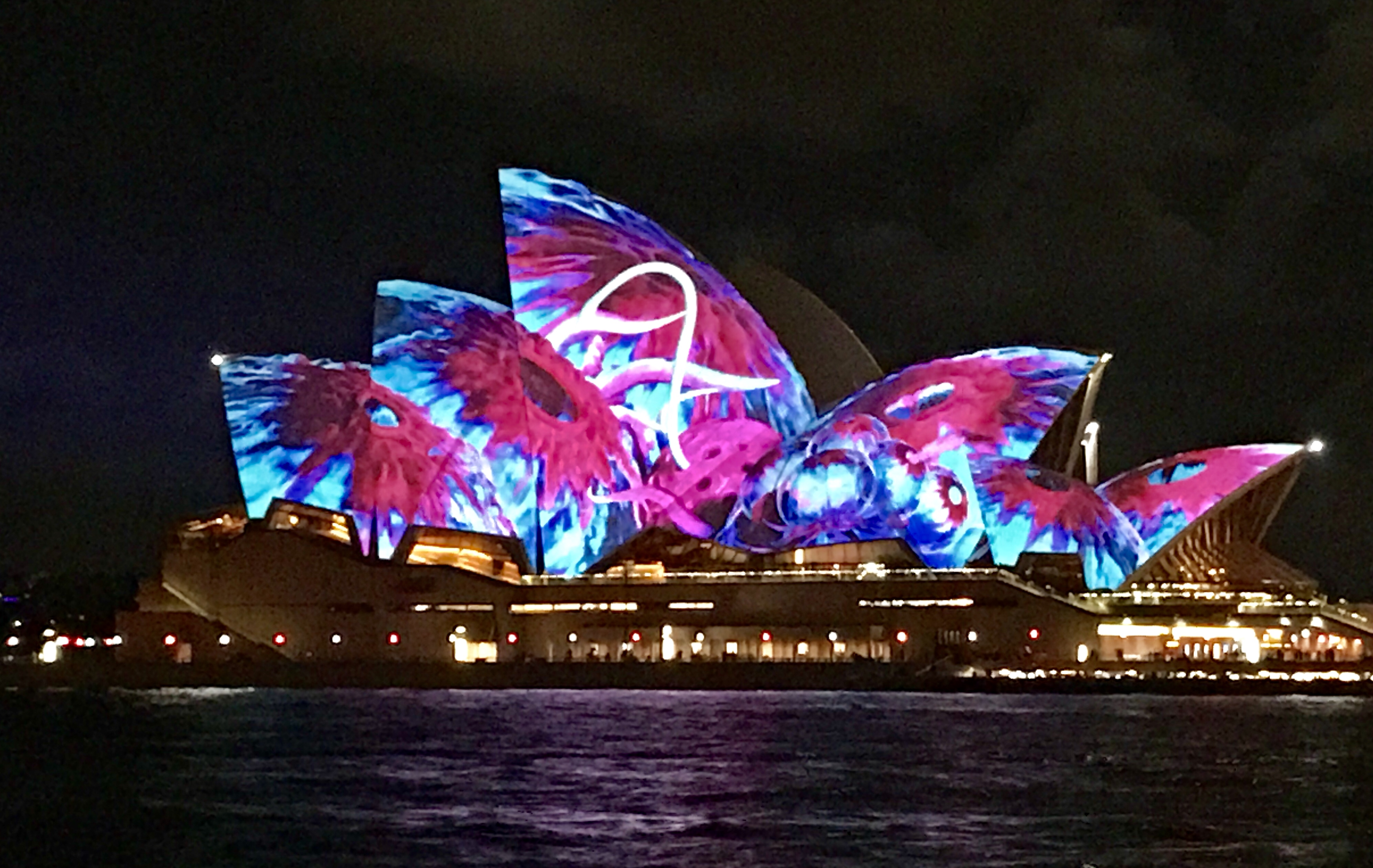 Sydney Opera House at night during Vivid Sydney 2017